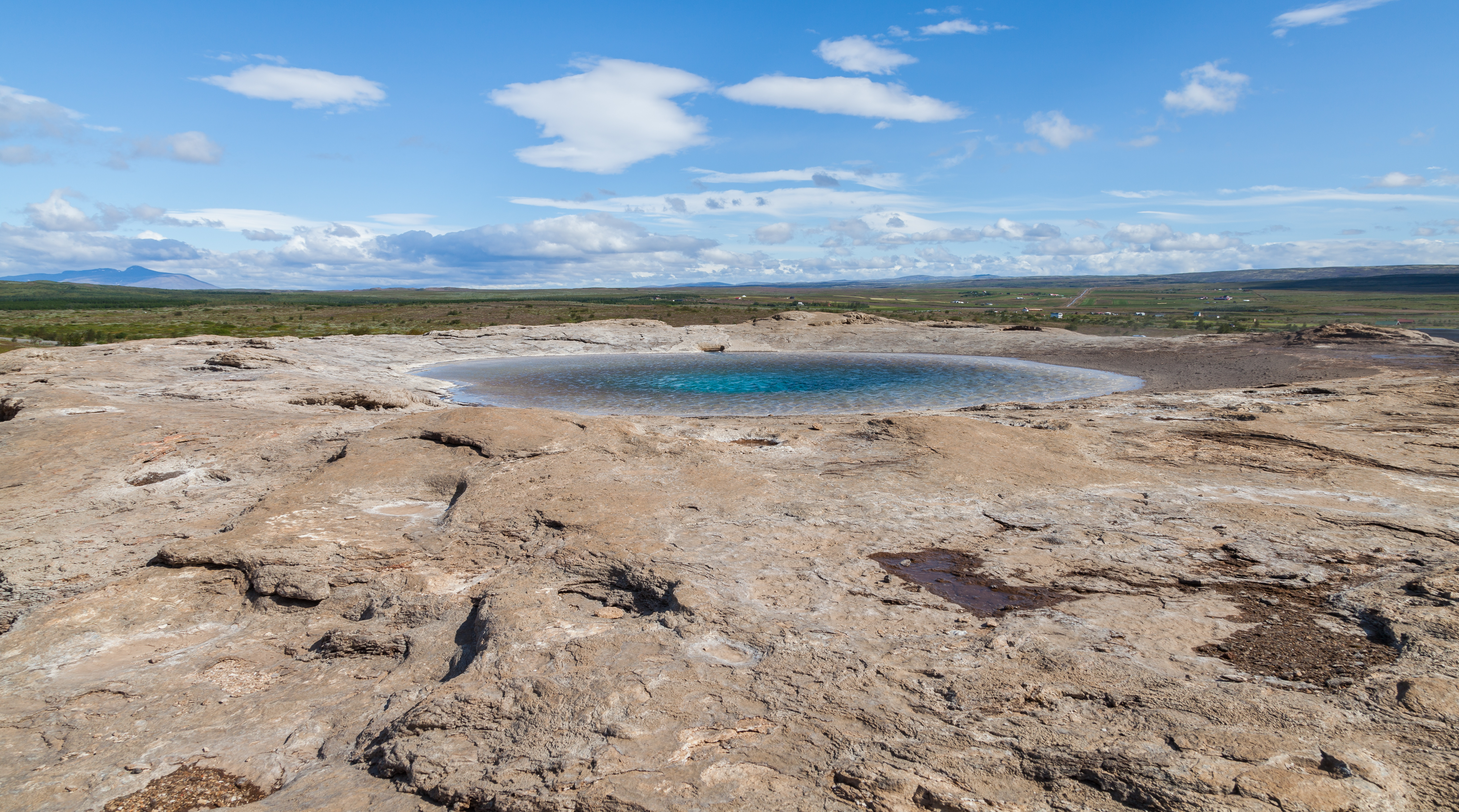 Great Geysir, Geysir Geothermal Field, Suðurland, Iceland